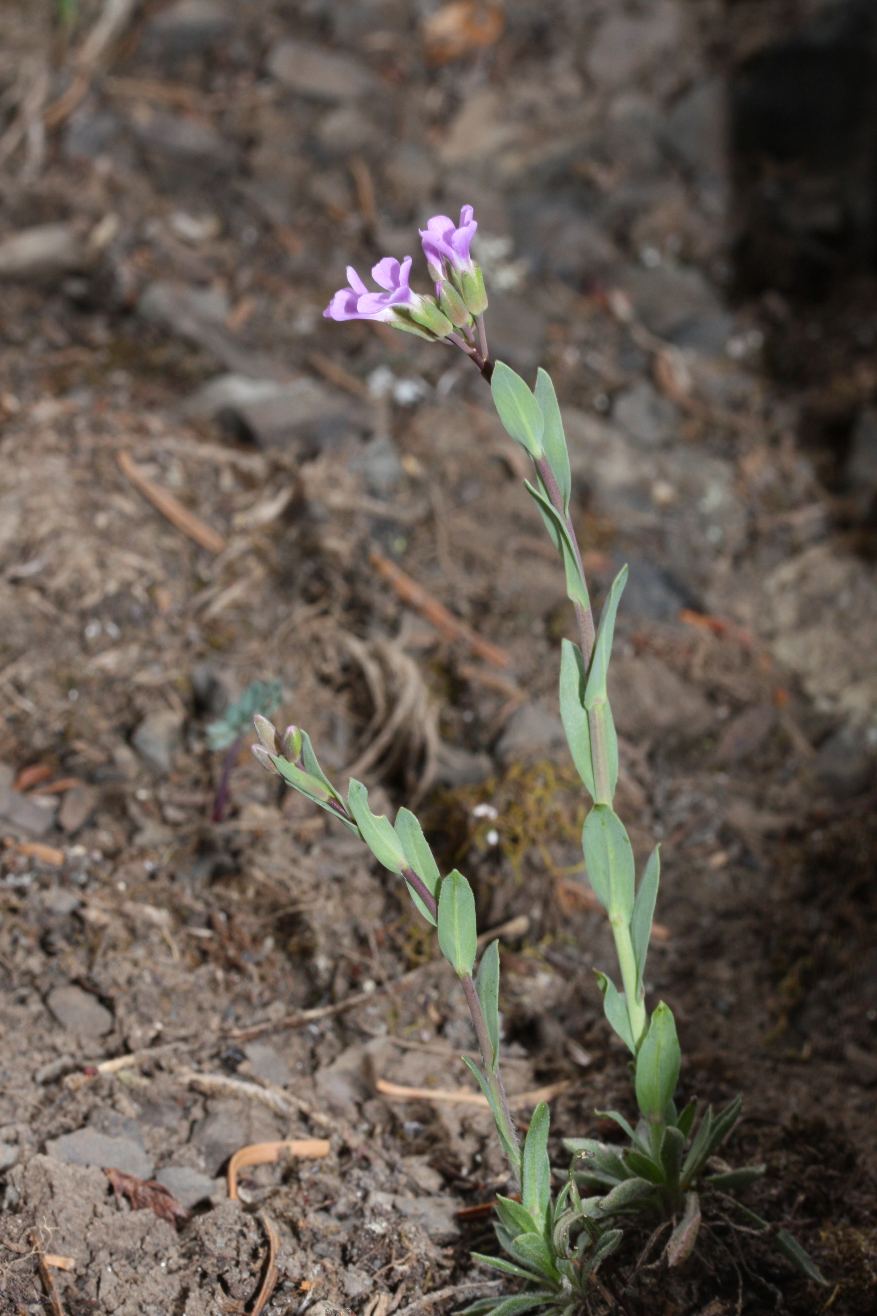 Lyall's Rockcress